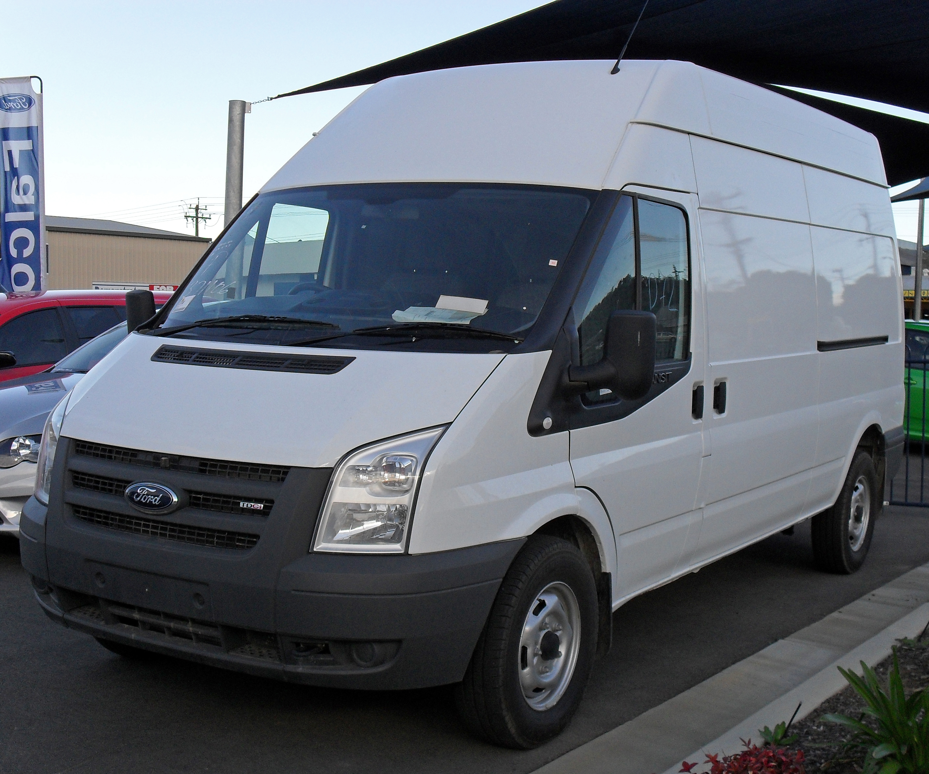 2007 - 09 Ford Transit 350 LWB Jumbo Van.